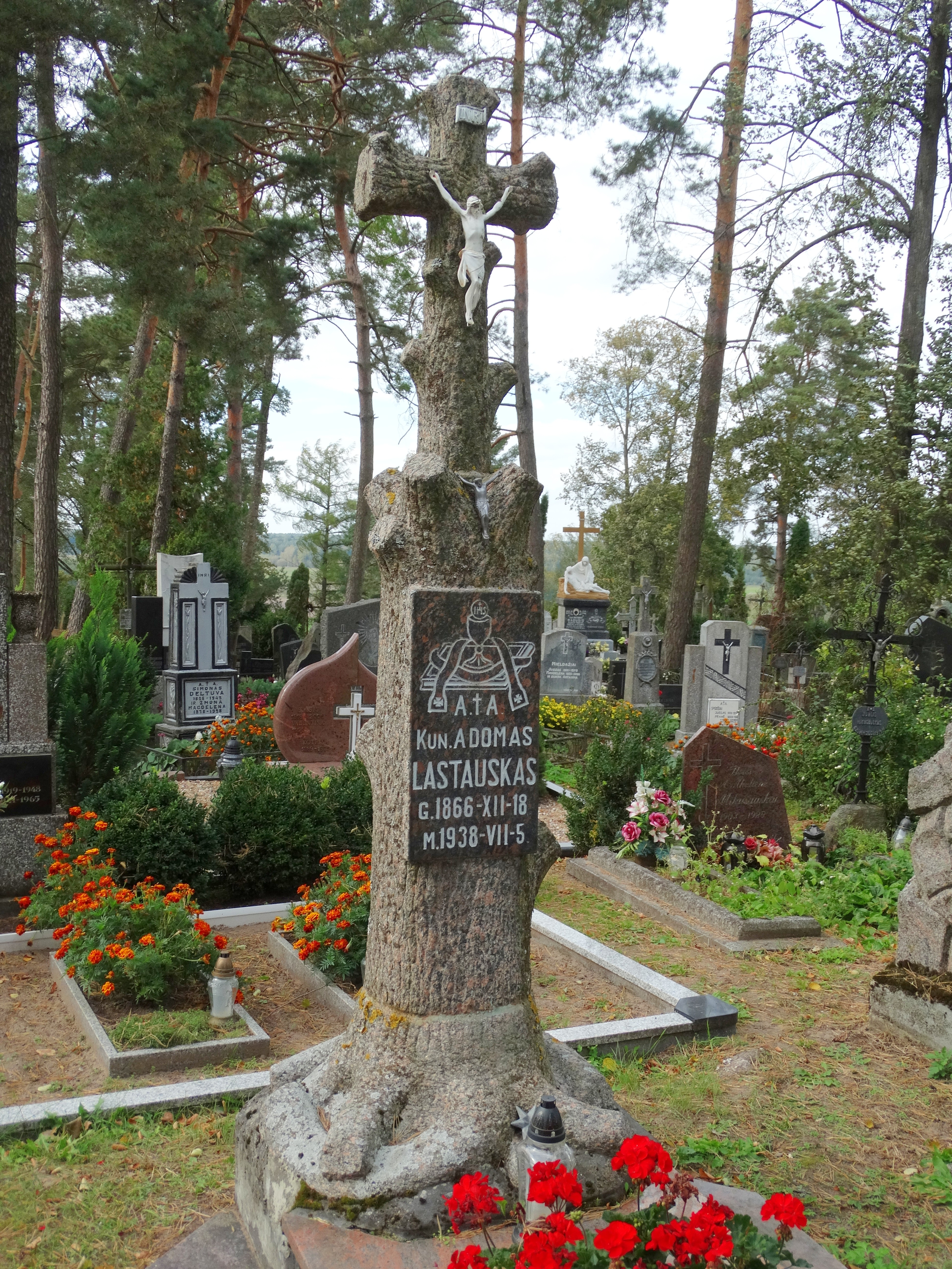 Tomb of Adomas Lastauskas in Šilavotas, Prienai district, Lithuania